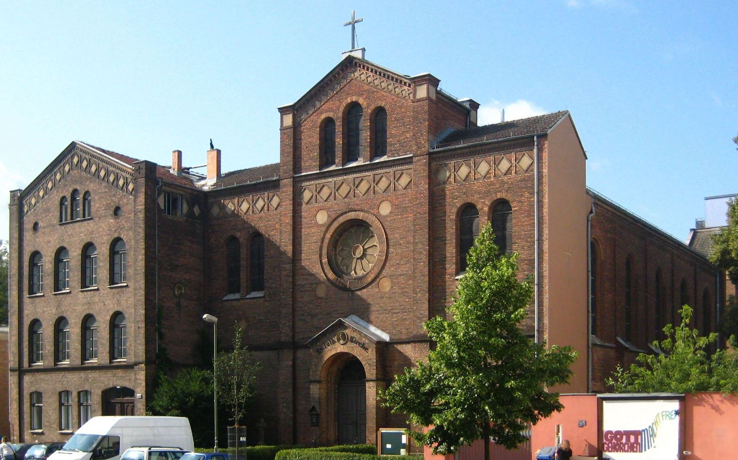 The Evangelical Lutheran Church at Annenstraße No. 52-53 in Berlin-Mitte, also called Annenkirche because of its location. The church was built from 1855 to 1857 to a design by Hermann Blankenstein. Annexes constructed until 1889 included a school building, a preacher's home, and a teacher and residential building. The school building was destroyed in WWII. The other buildings and the church have been designated as a historic landmark.